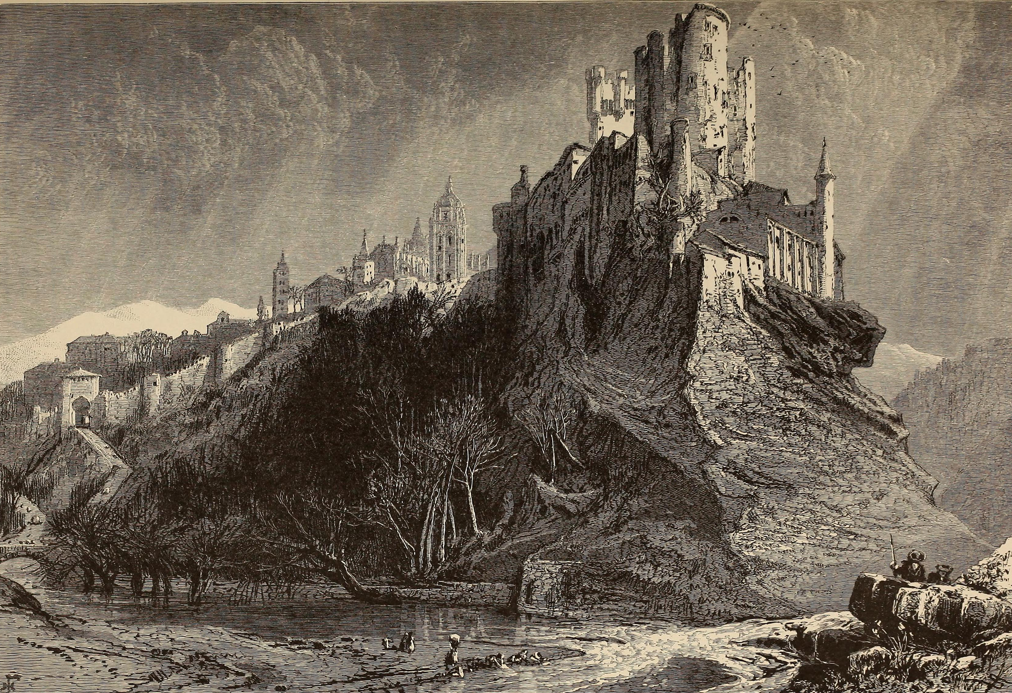 Segovia, North Spain.